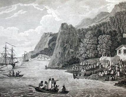 Arrival of Capt. John Meares at Nootka harbour (Vancouver island) in 1788, where he intended to build a permanent British settlement. This scene shows Meares' ships firing canons and a cutter on the shore as natives in boats look on & point to the activities on the beach where British flags are flying. From the French Edition of John Meares' Voyages, titled “Collection De Cartes Geographiques, Vues, Marines, Plans et Portraits Aux Voyages Du Capitaine J. Meares”. First published in England in 1790 and in France in 1794.